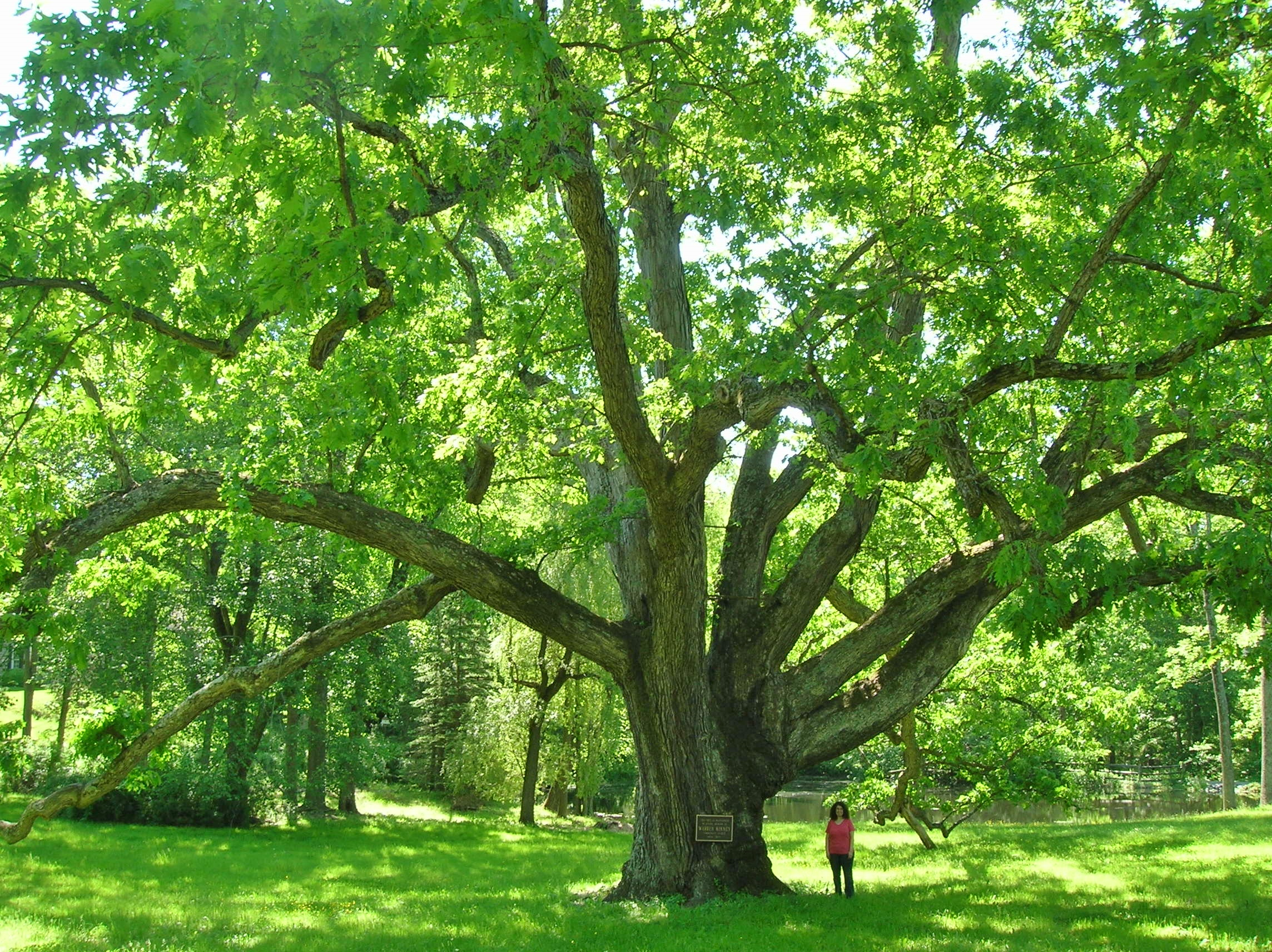 Photograph of the oak tree dedicated to Warren Kinney, which is located in Basking Ridge, NJ.